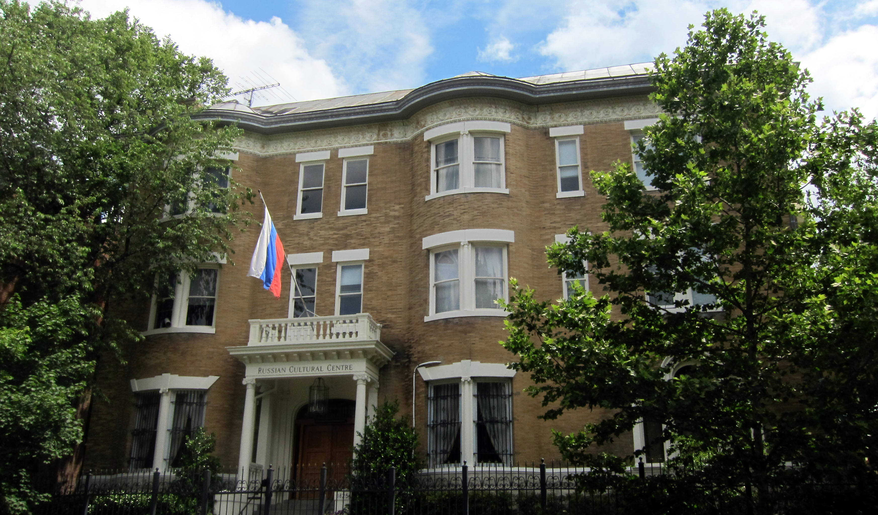 The Russian Cultural Centre (RCC) located at 1825 Phelps Place, N.W., in the Sheridan-Kalorama neighborhood of Washington, D.C. Built in 1895, the RCC facility is designated as a contributing property to the Sheridan-Kalorama Historic District, listed on the National Register of Historic Places in 1989. Previous occupants include Evalyn Walsh McLean, a socialite who became the last private owner of the Hope Diamond. (another former residence of McLean, located nearby). In the 1950s, the property was purchased by the Soviet government, and converted into a school for children whose parents were employed at the embassy. It later served as the Russian Embassy Consulate until the RCC opened in 1999.